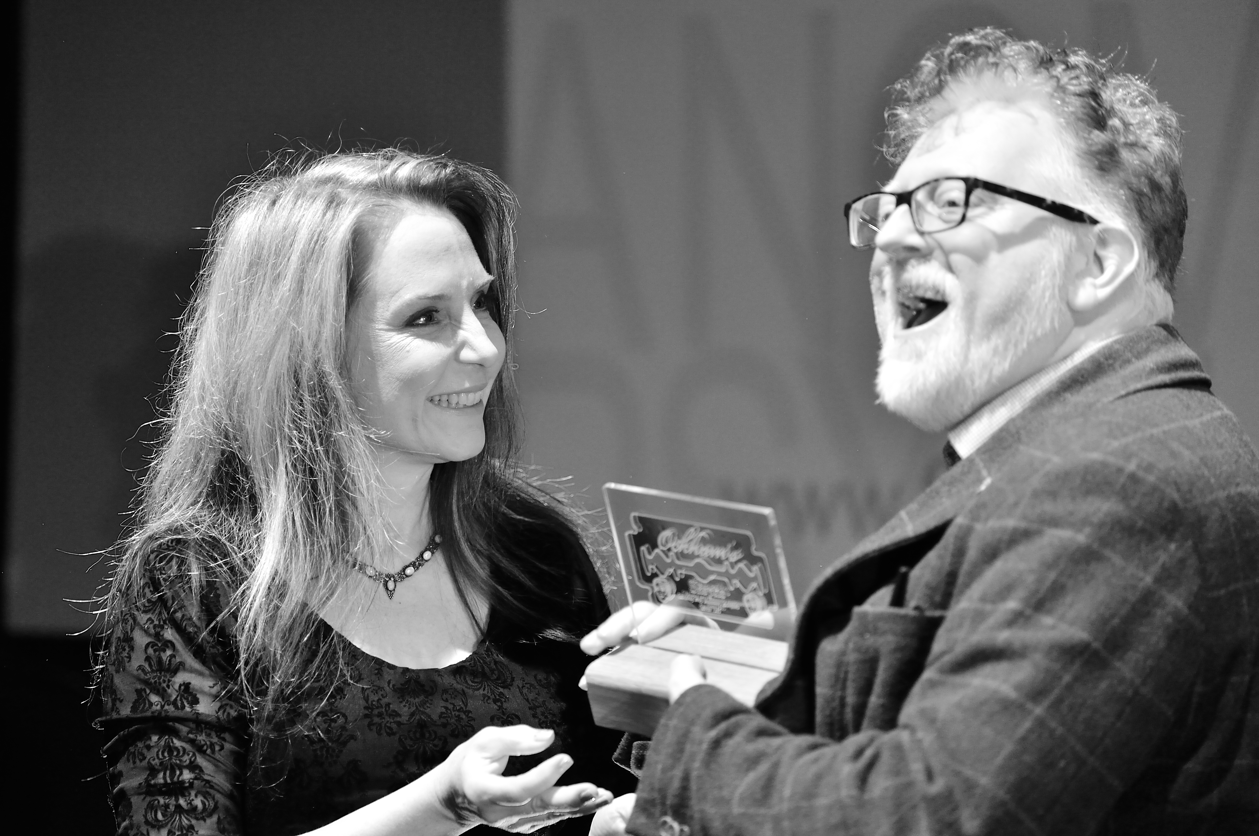 Deborah Hyde and Crispian Jago at QED 2016